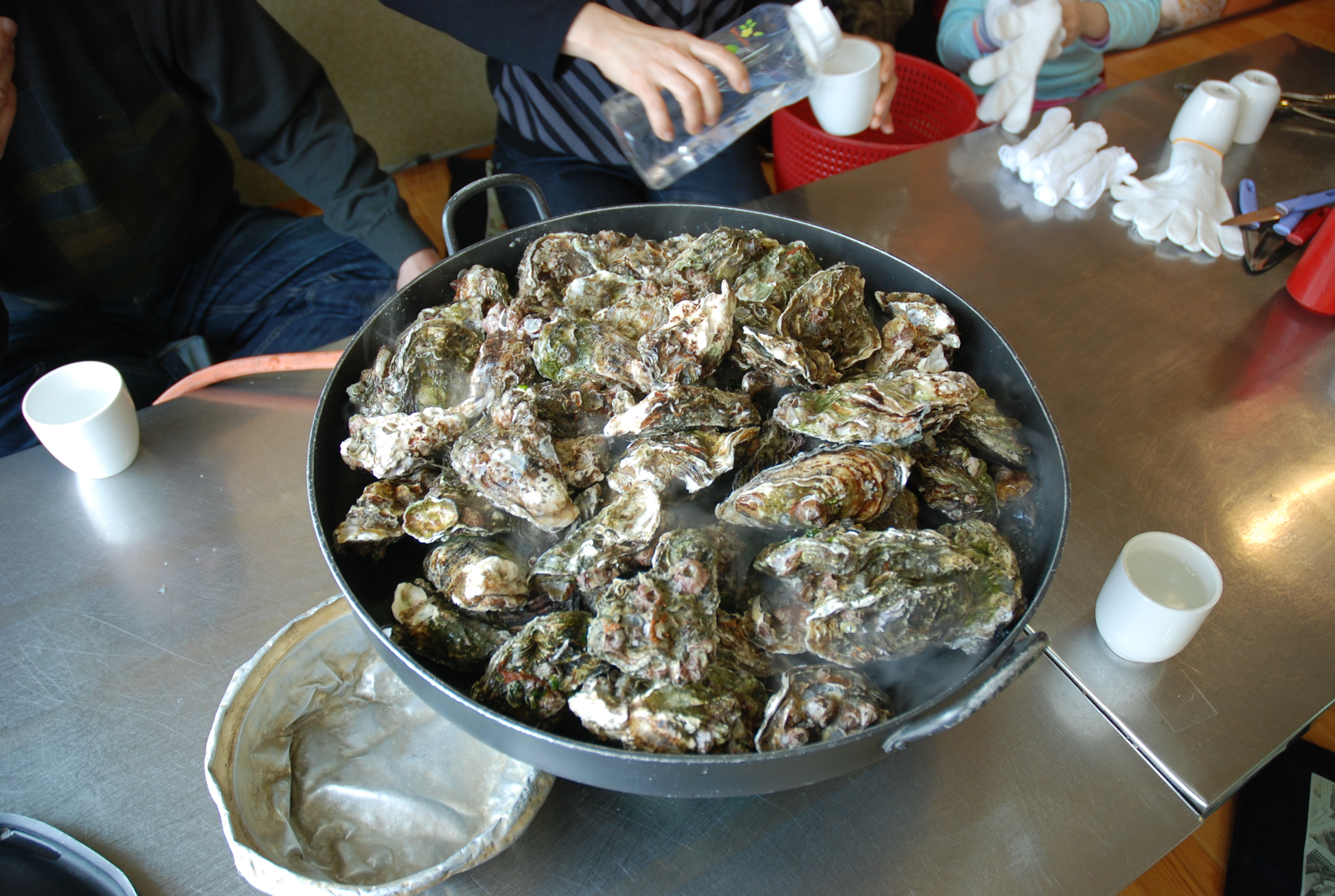 Geoje Oyster Food, Gyeongsangnam-do, Korea